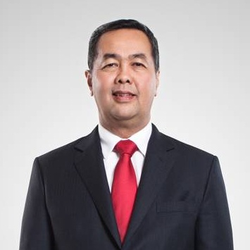 Musliar Kasim, Deputy Minister of Education and Culture of the Republic of Indonesia for Education (2011—2014)